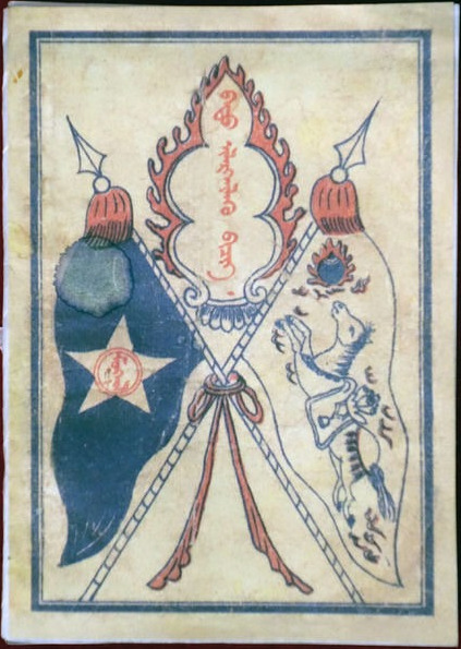 Inner Mongolian People's Revolutionary Party emblem中文（中国大陆）: 内蒙古人民革命党